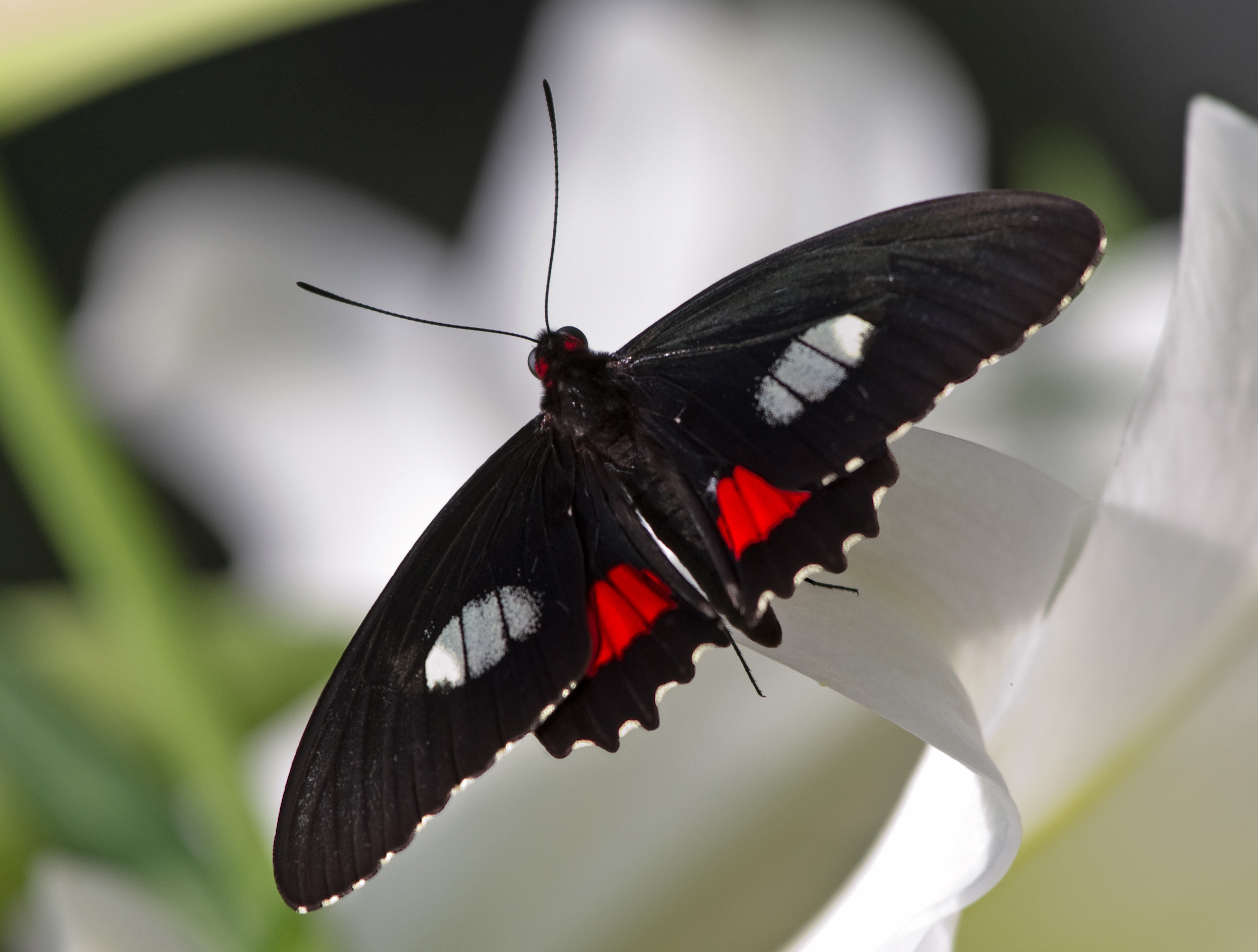 Arcas Cattleheart - dorsal view. Taken at Krohn Conservatory.